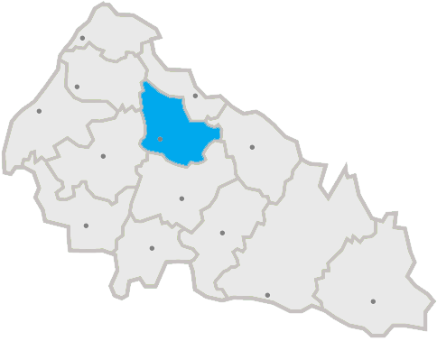 Ukraine, Oblast Transcarpathia, Rajon Svaliava highlighted